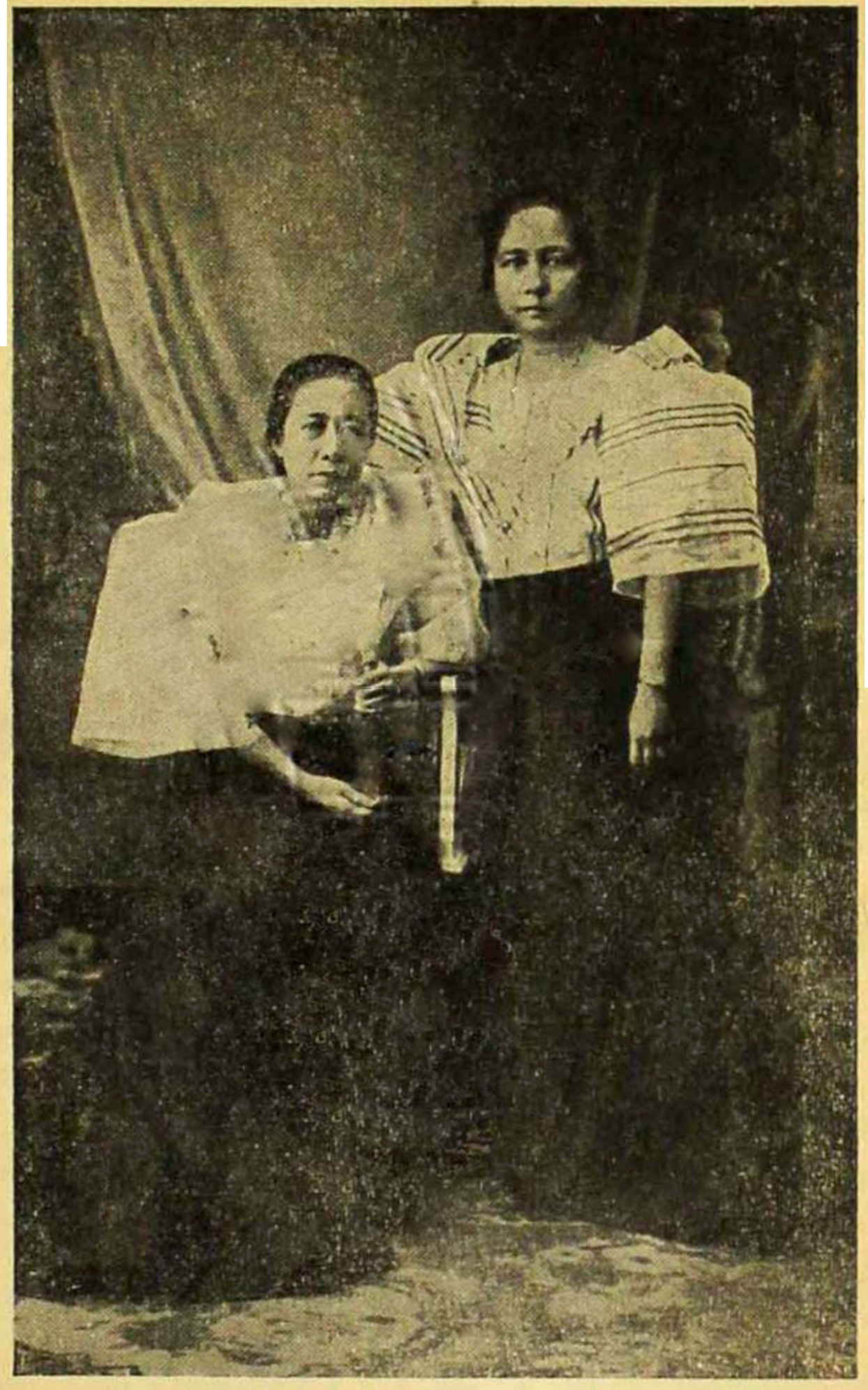 Filipina educators Librada Avelino and Carmen de Luna in 1911, co-founders of the Centro Escolar University of Manila